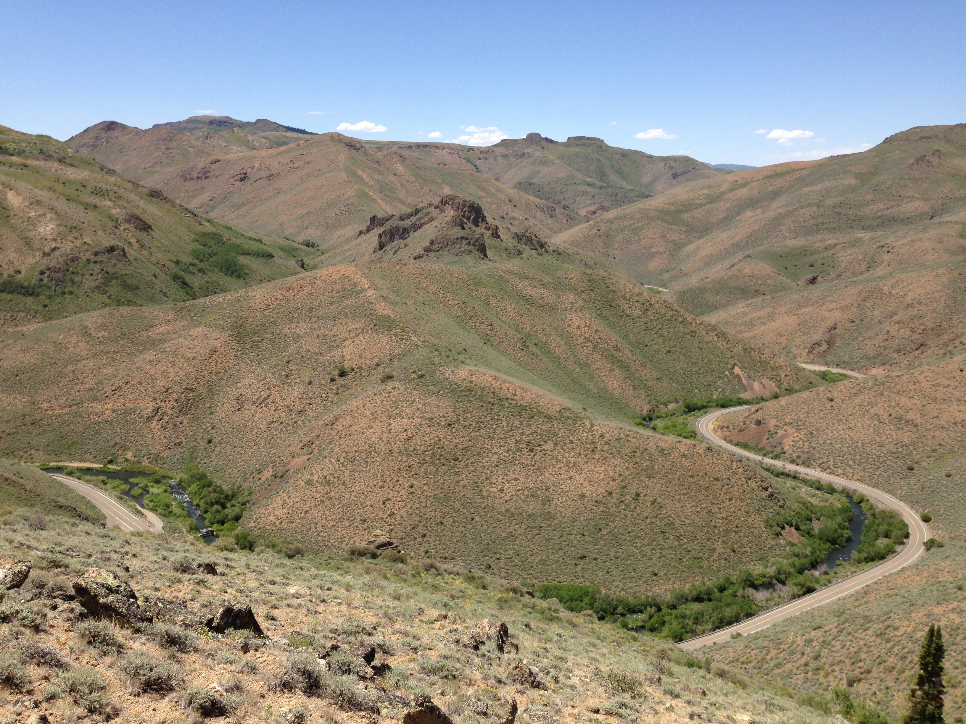 View west across the Owyhee River Canyon, with the Owyhee River and Nevada State Route 225 visible below